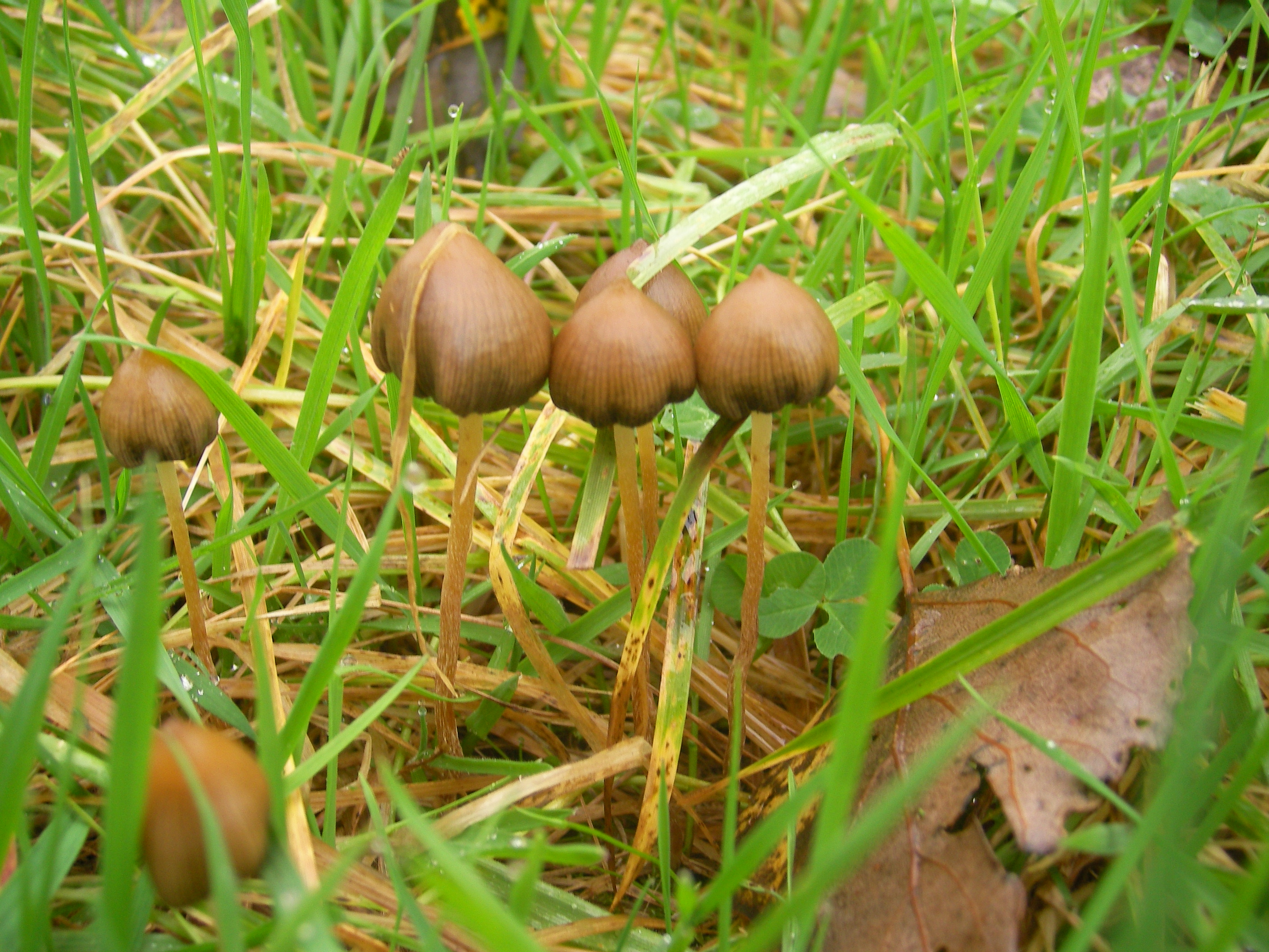 A group of psilocybe semilanceata , better known as libery caps, in Belgium (Flanders)